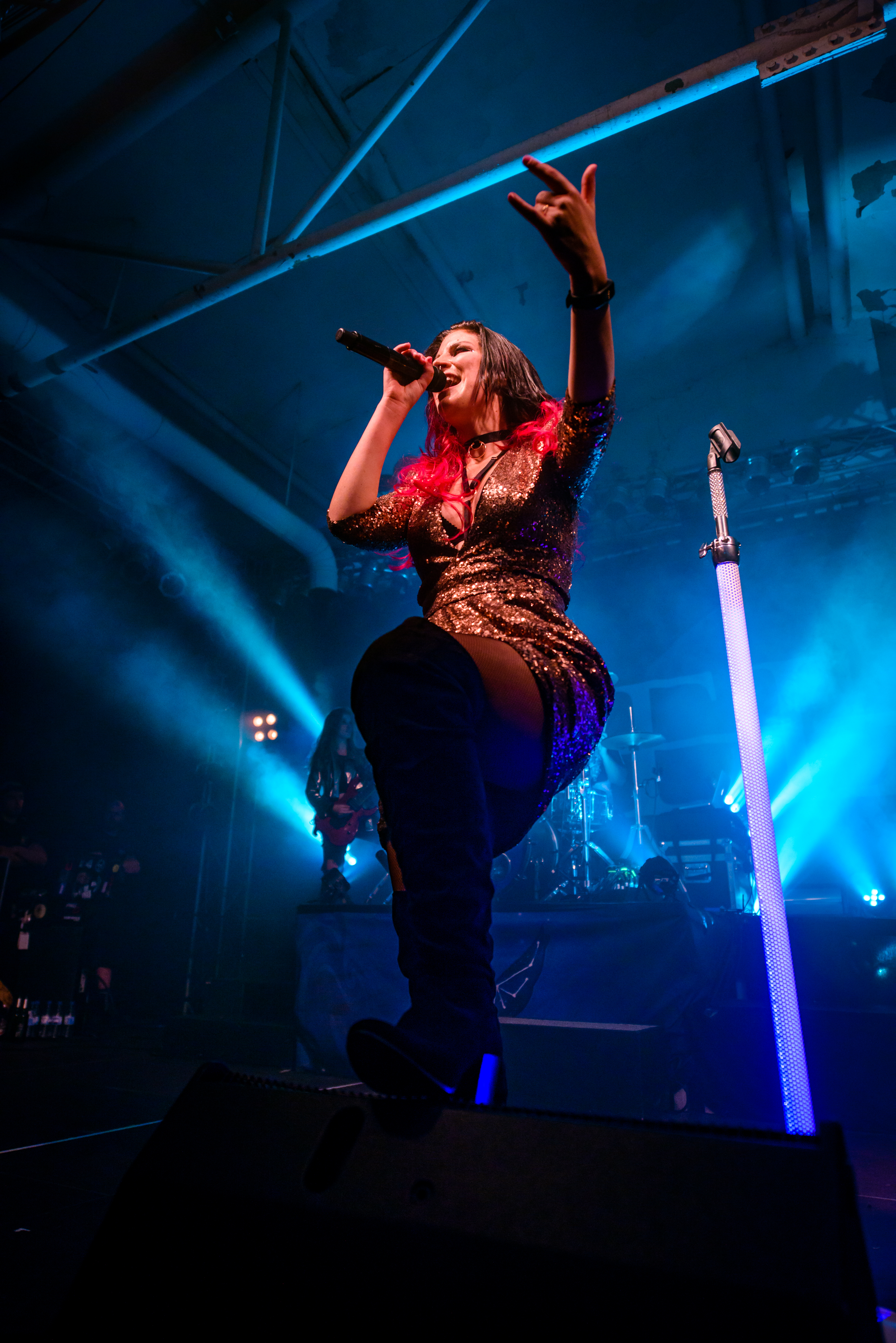 Delain - Moonbathers Tour; Essigfabrik Köln 2016